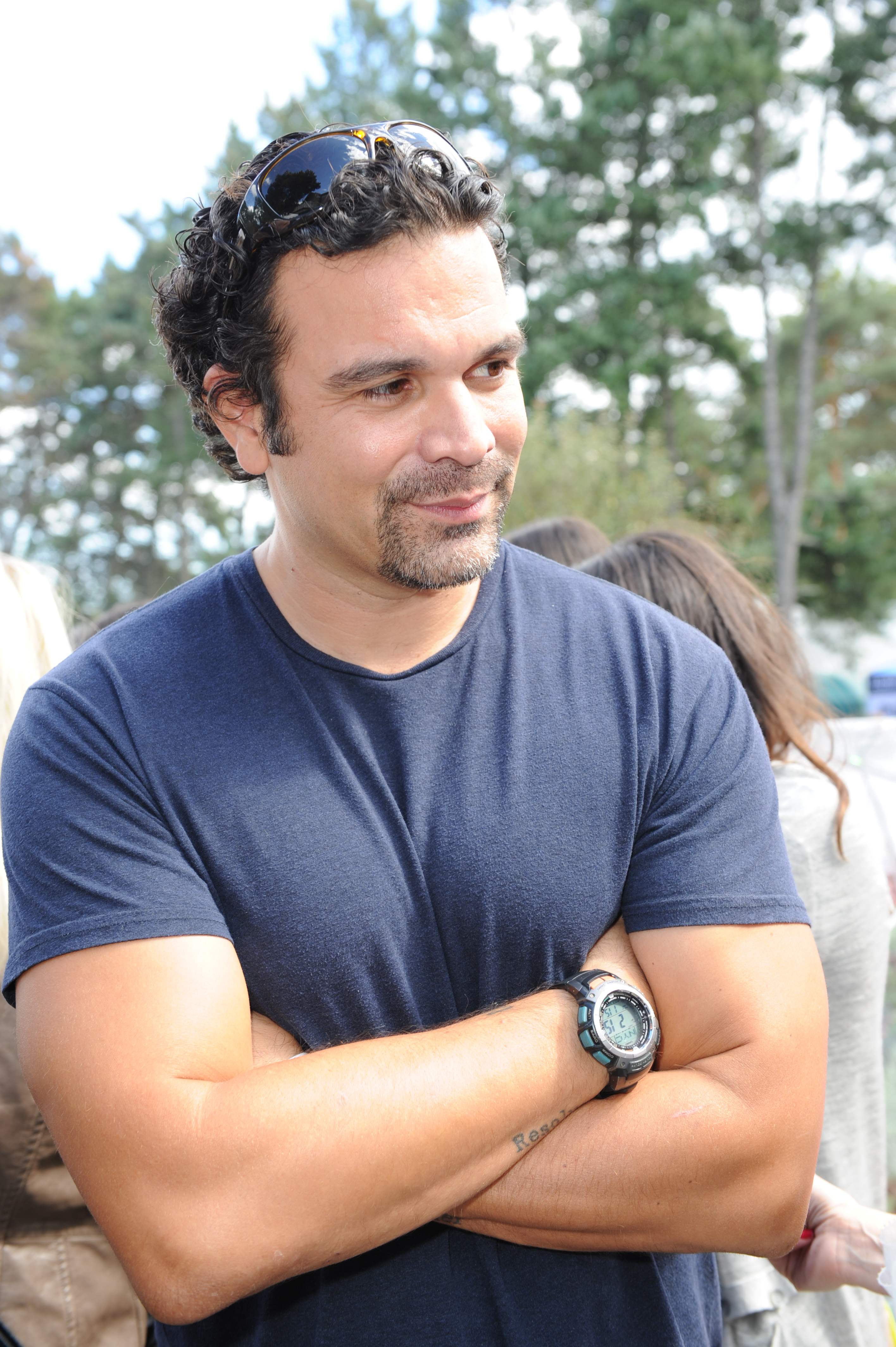 Ricardo Chavira at the annual BBQ. The Canadian Film Centre (CFC) Annual BBQ was held on Sept. 9, 2012 in Toronto, Ontario in celebration of Canadian Talent at the Toronto International Film Festival. Learn more about the Annual BBQ by visiting To find out more about the Canadian Film Centre, please visit: Photo by Tom Sandler Photography